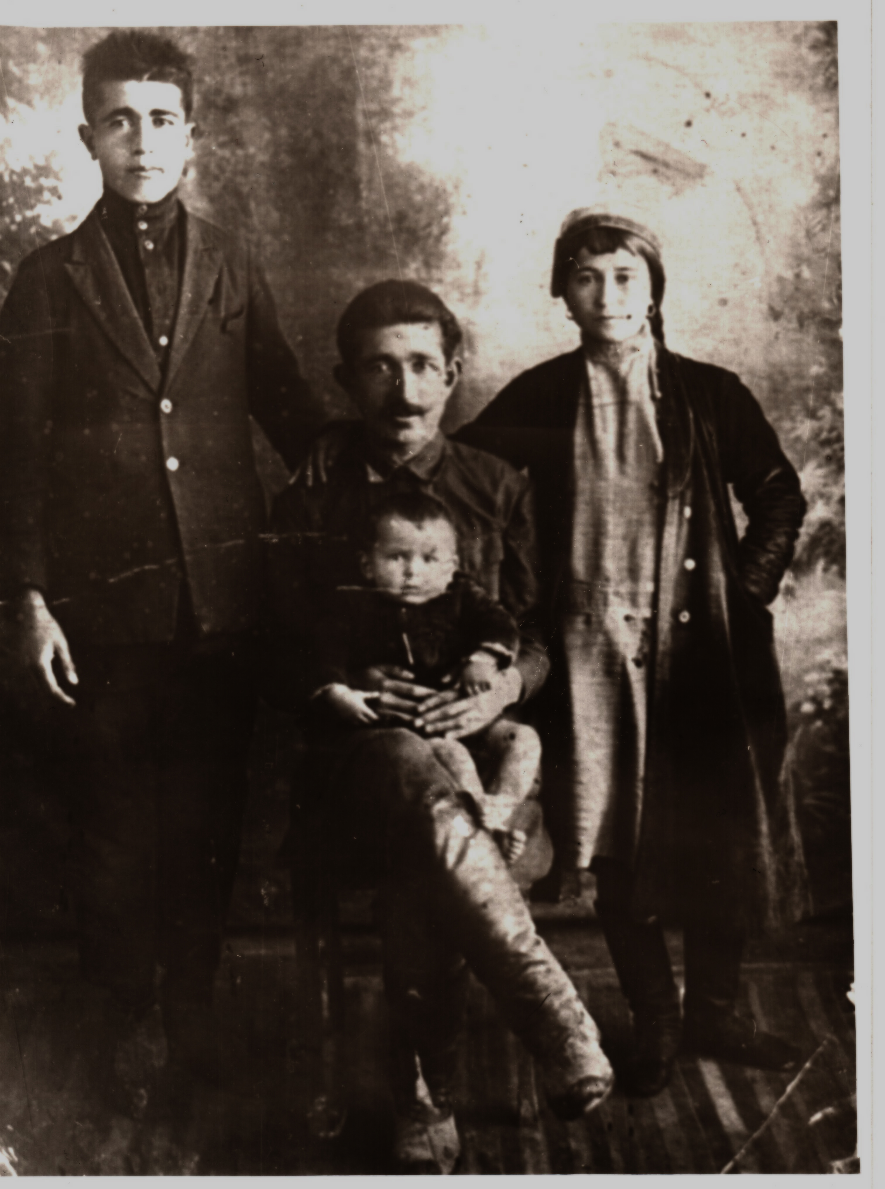 Childhood of Toshev O.T. In foto with Dad, Mother and uncle